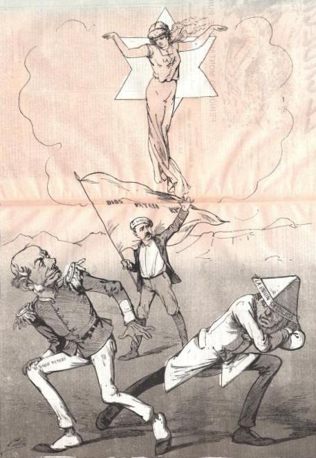 graphics published in the Spanish La Cabecilla weekly, titled "El triunfo de La Fé". It was published during internal strife between different branches of Carlism; it portrays a triumph of La Cabecilla weekly, featuring a face of its owner Ramon Altarriba y Villanueva, sporting a Carlist beret and holding a flag reading "God, Patria, King", while its enemies, El Siglo Futuro, featuring a face of the old and worn-out Candido Nocedal, and La Union Catolica, featuring a "paper general" face of Alejandro Pidal, get defeated. The title might mean simply "the triumph of faith [Roman-Catholic orthodoxy over its offshoots]", but it could also mean "the triumph of La Fe", a periodical siding with La Cabecilla against El Siglo Futuro and others